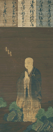 Two Patriarchs - Shandao, Otani University Museum, Kyoto, Kyoto, Japan